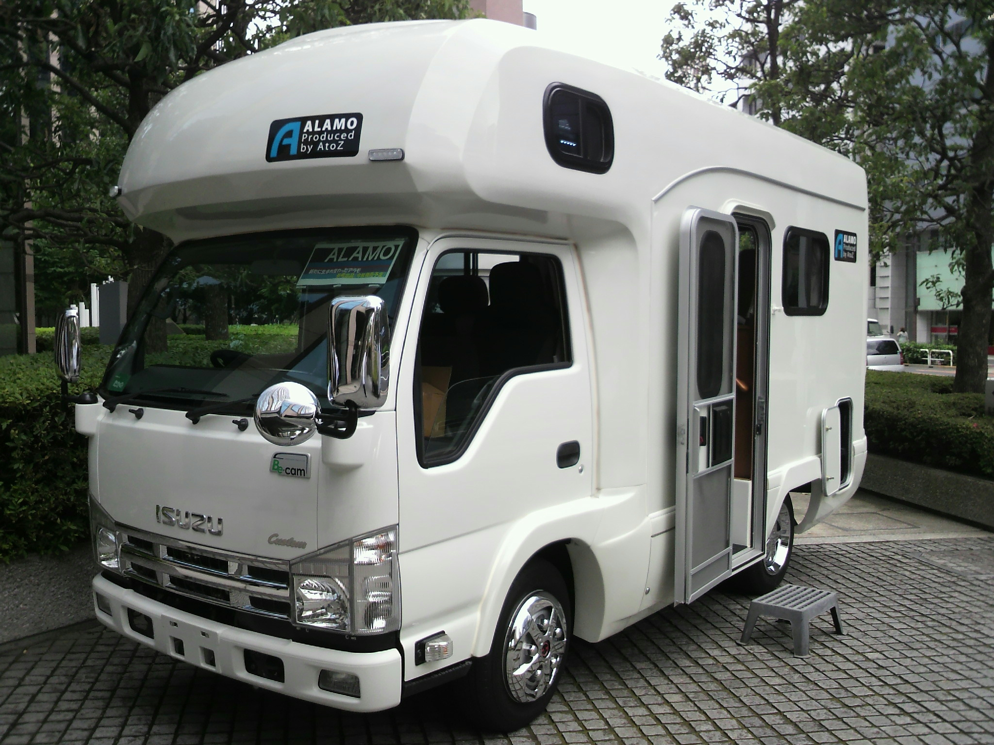 ISUZU, ELF,（It is called N-series or REWARD excluding a Japanese market.）, Recreational vehicle